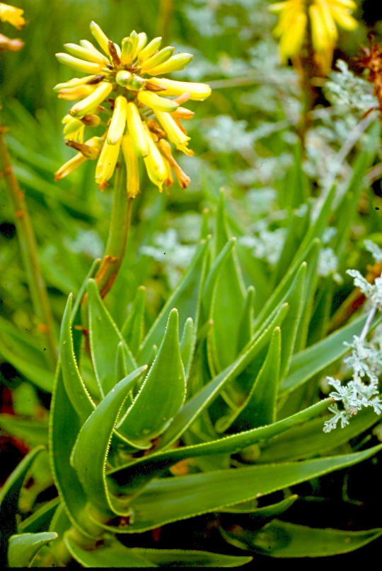 Peninsula Rambling Aloe of Cape Town. Aloe commixta. Yellow flowered.